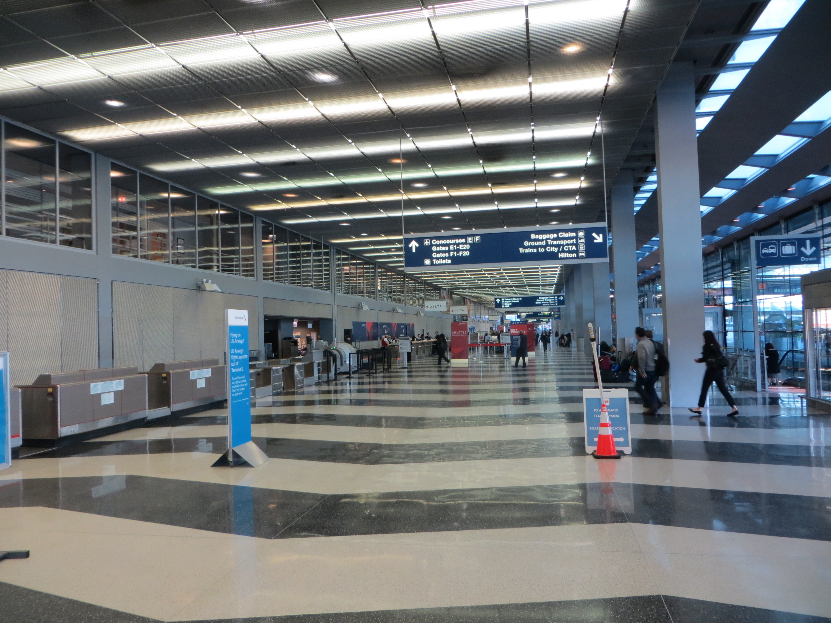 20141007 04 O'Hare Airport